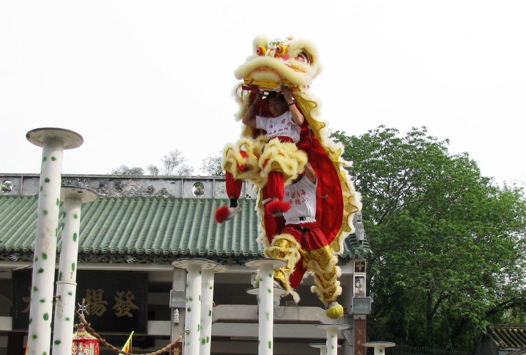 Lion dance in Foshan Guangdong, China.中国广东佛山桩狮。